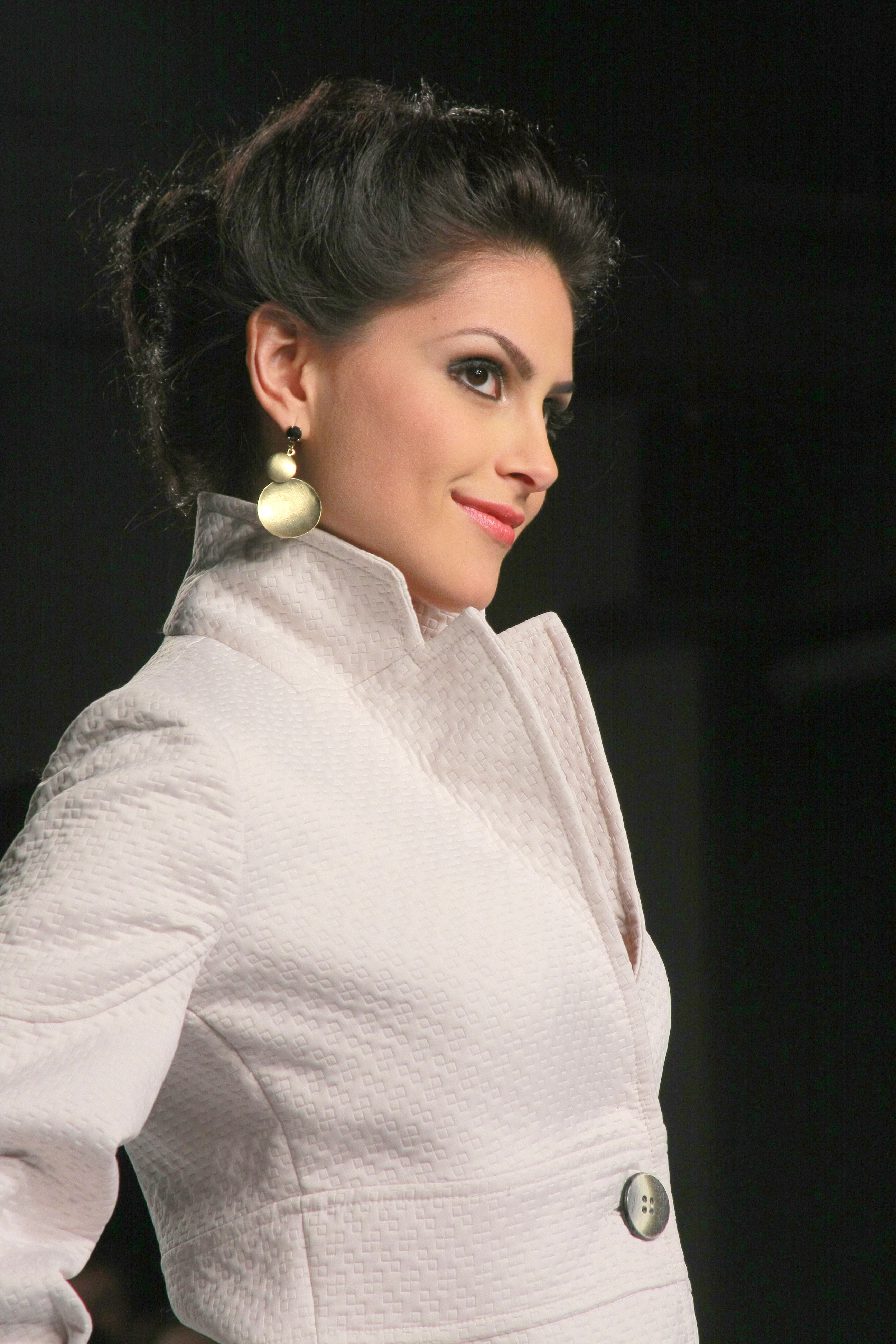 Natália Guimarães in Crystal Fashion 2008.